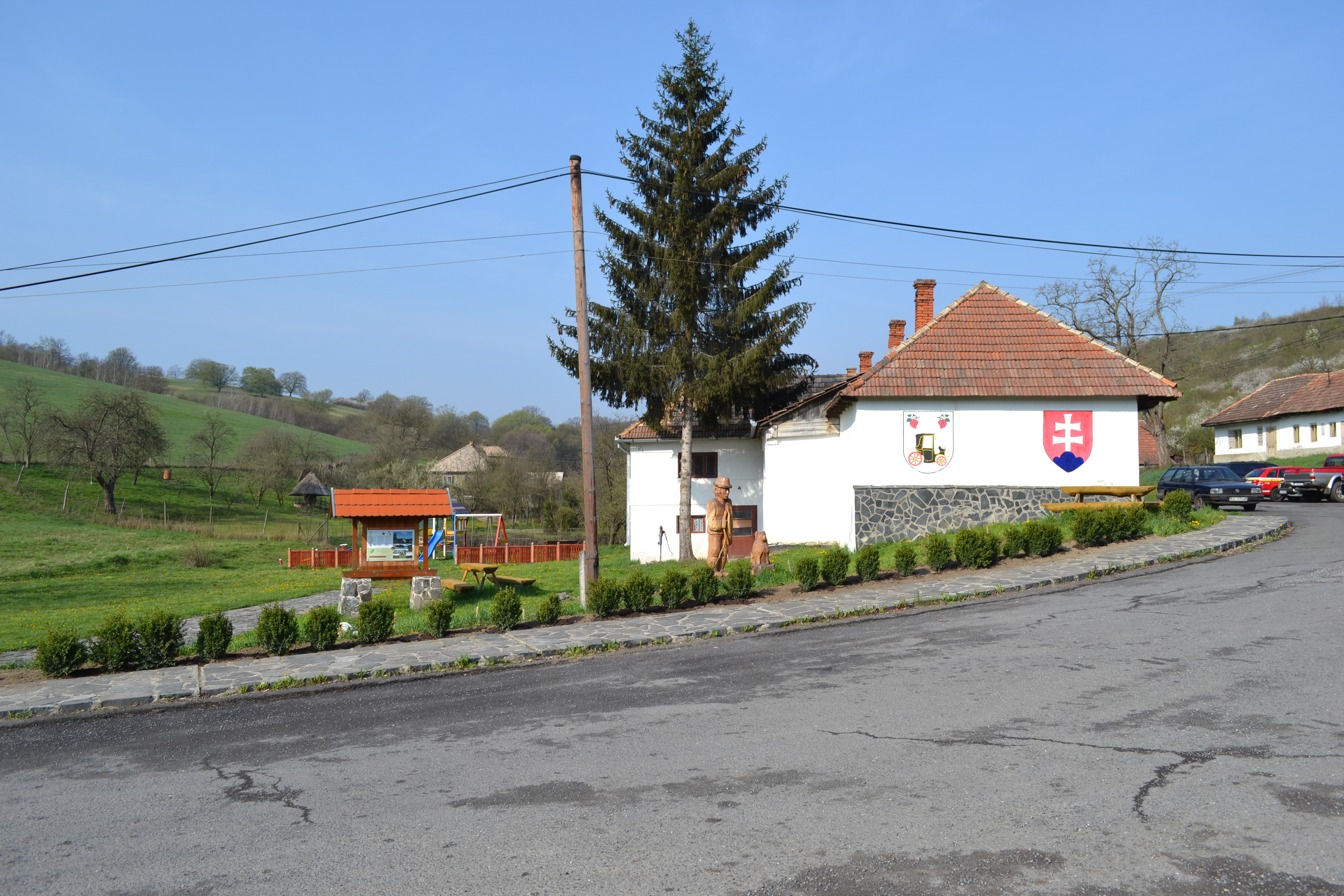 Street of the village RatkaSlovenčina: Ulica obce Ratka